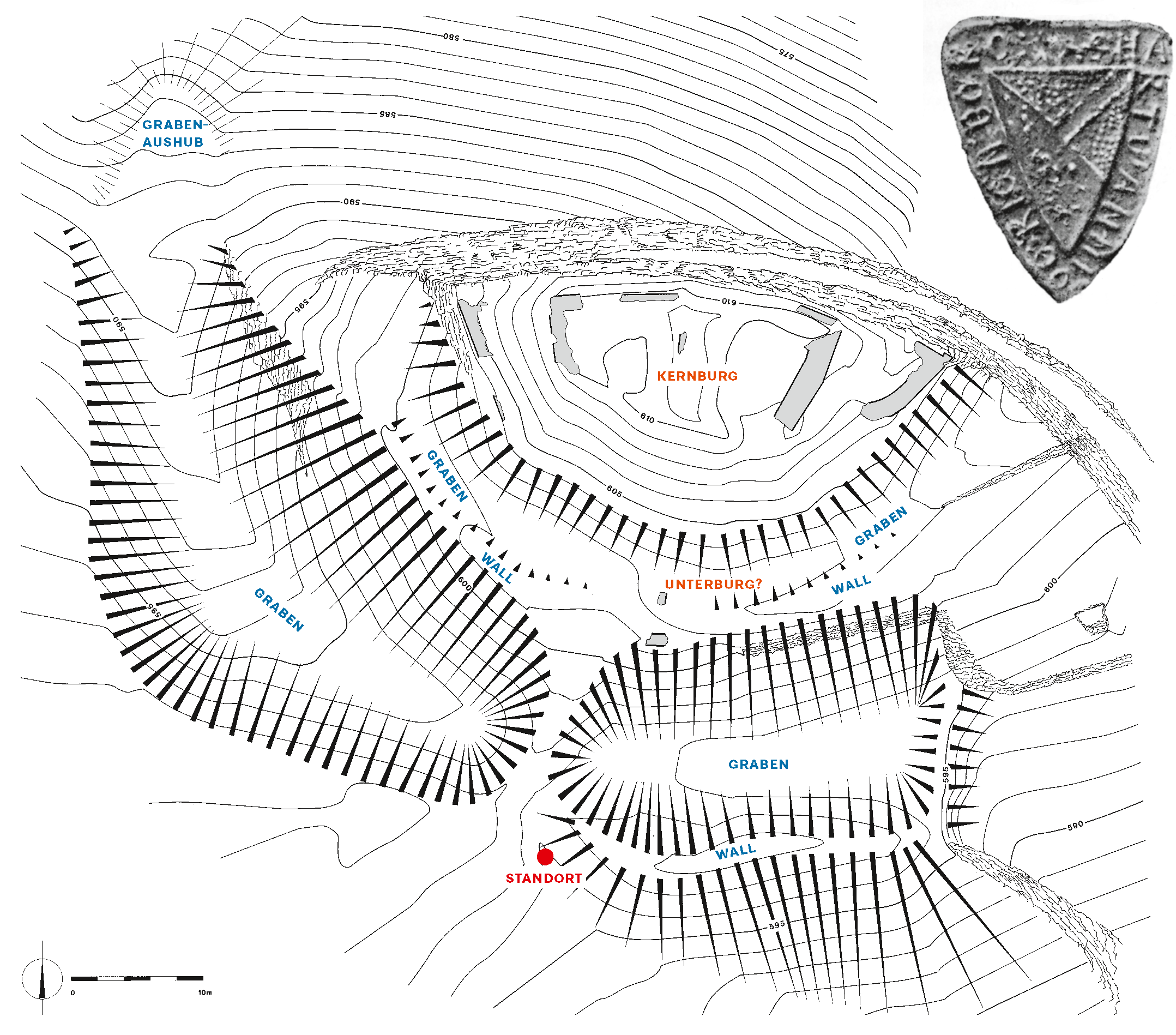 Footprint of Ruine Königstein, Switzerland